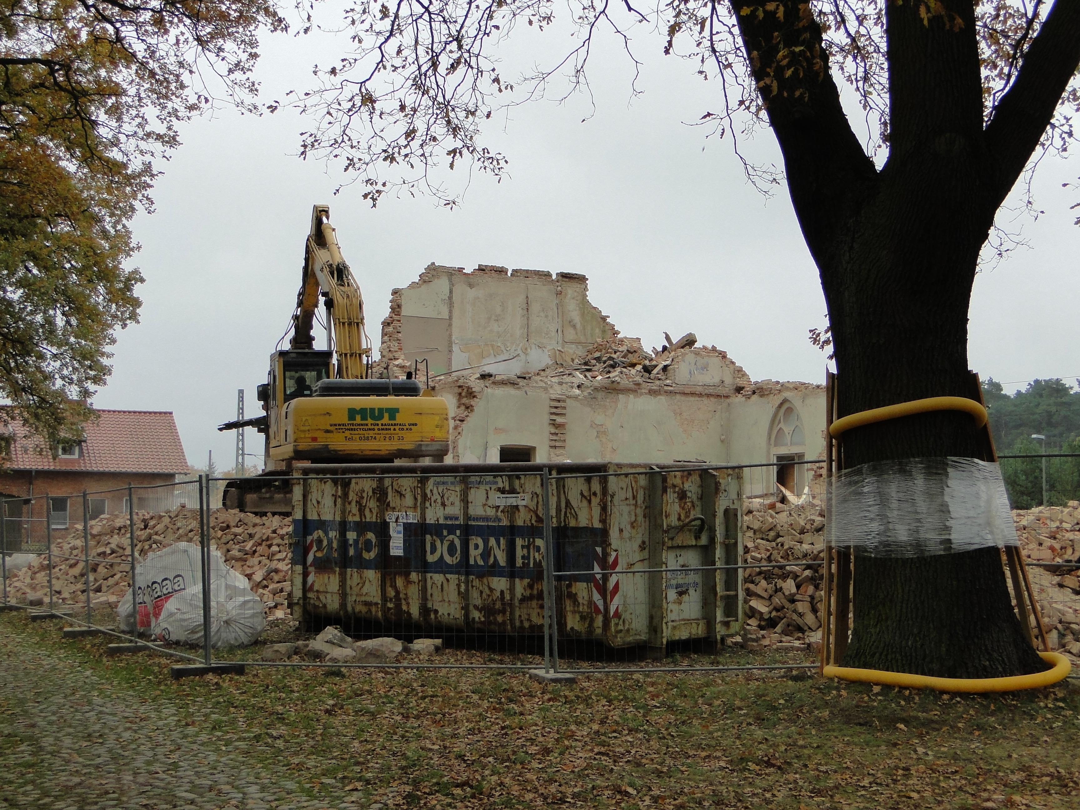 Demolition of the train station building in Jasnitz, district Ludwigslust-Parchim, Mecklenburg-Vorpommern, Germany